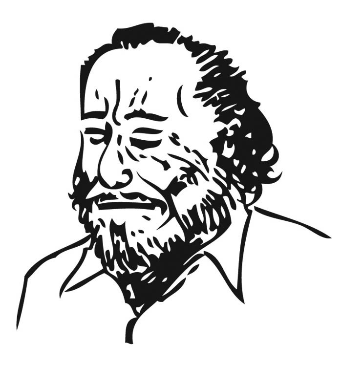 Drawing of writer Charles Bukowski